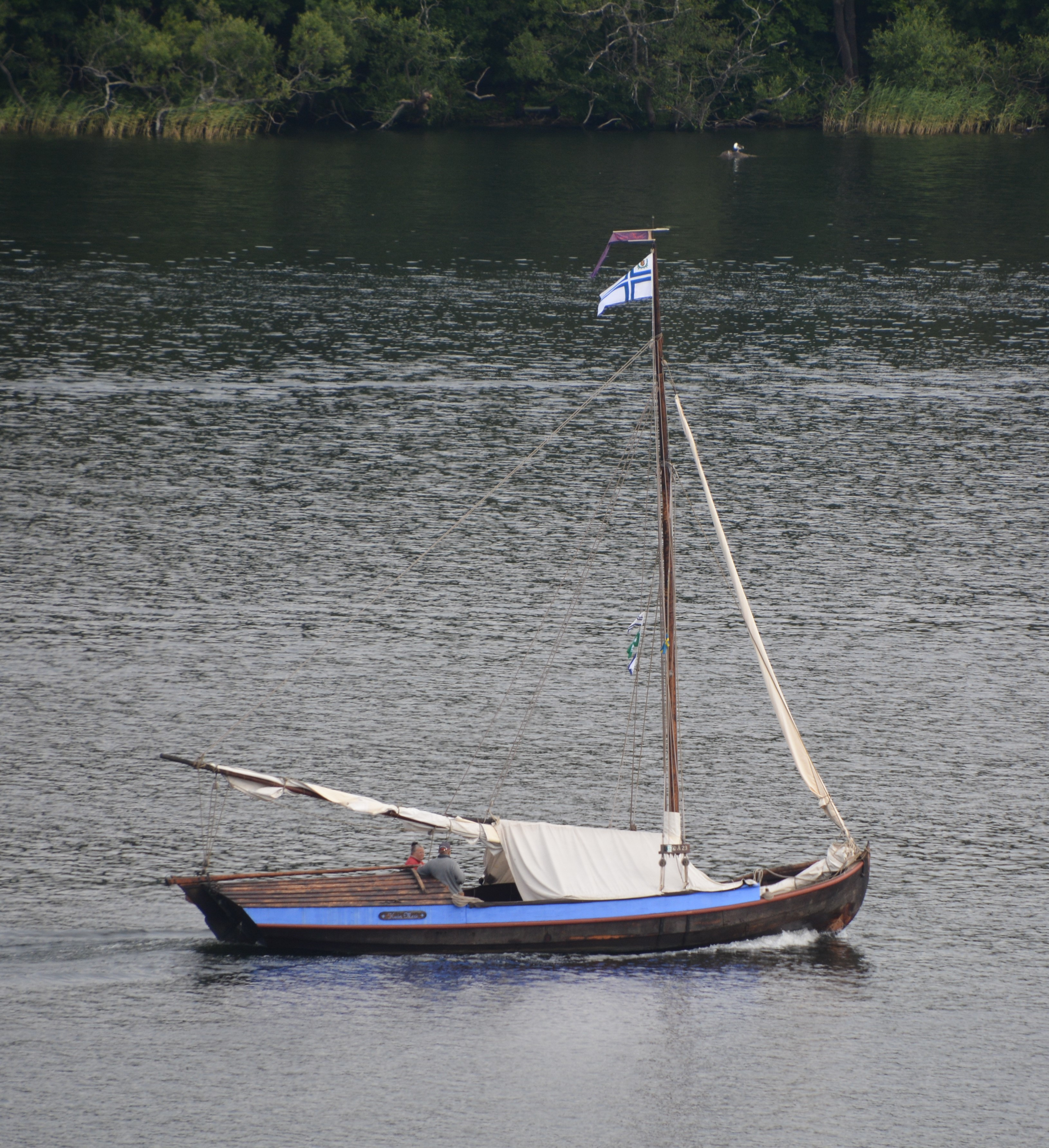 Unknown Finnish yacht in Lake Mälaren, Sweden